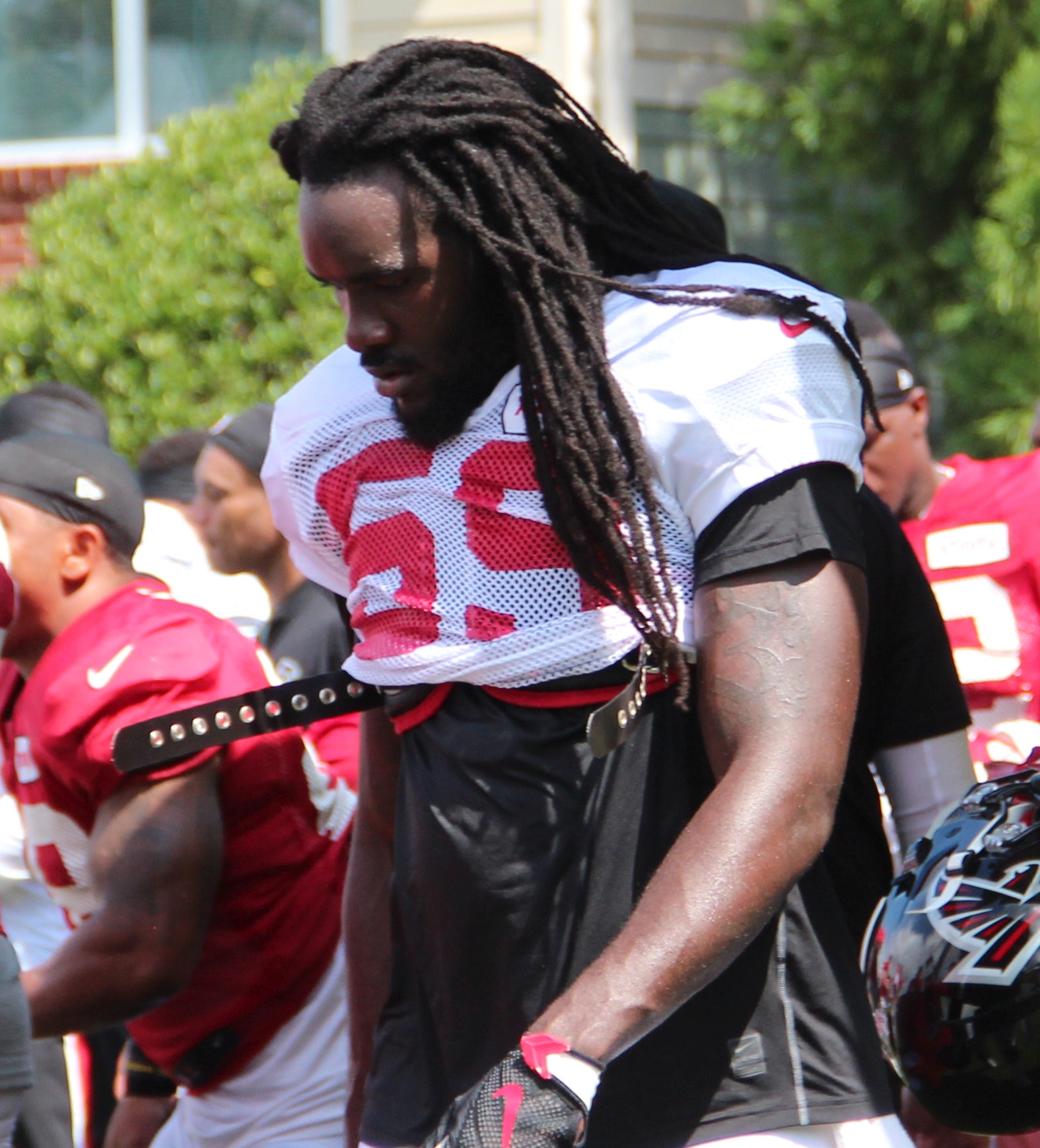 De'Vondre Campbell in 2016